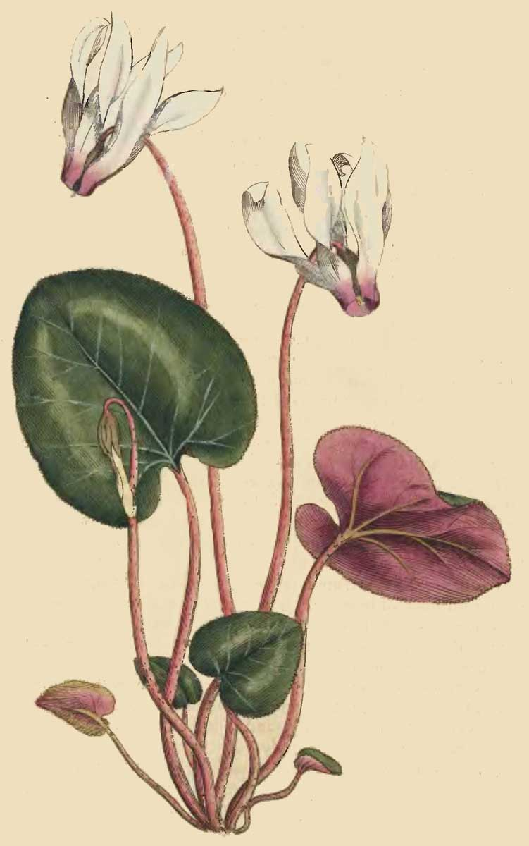 Artwork of a species chronicled in the second volume of The Botanical magazine